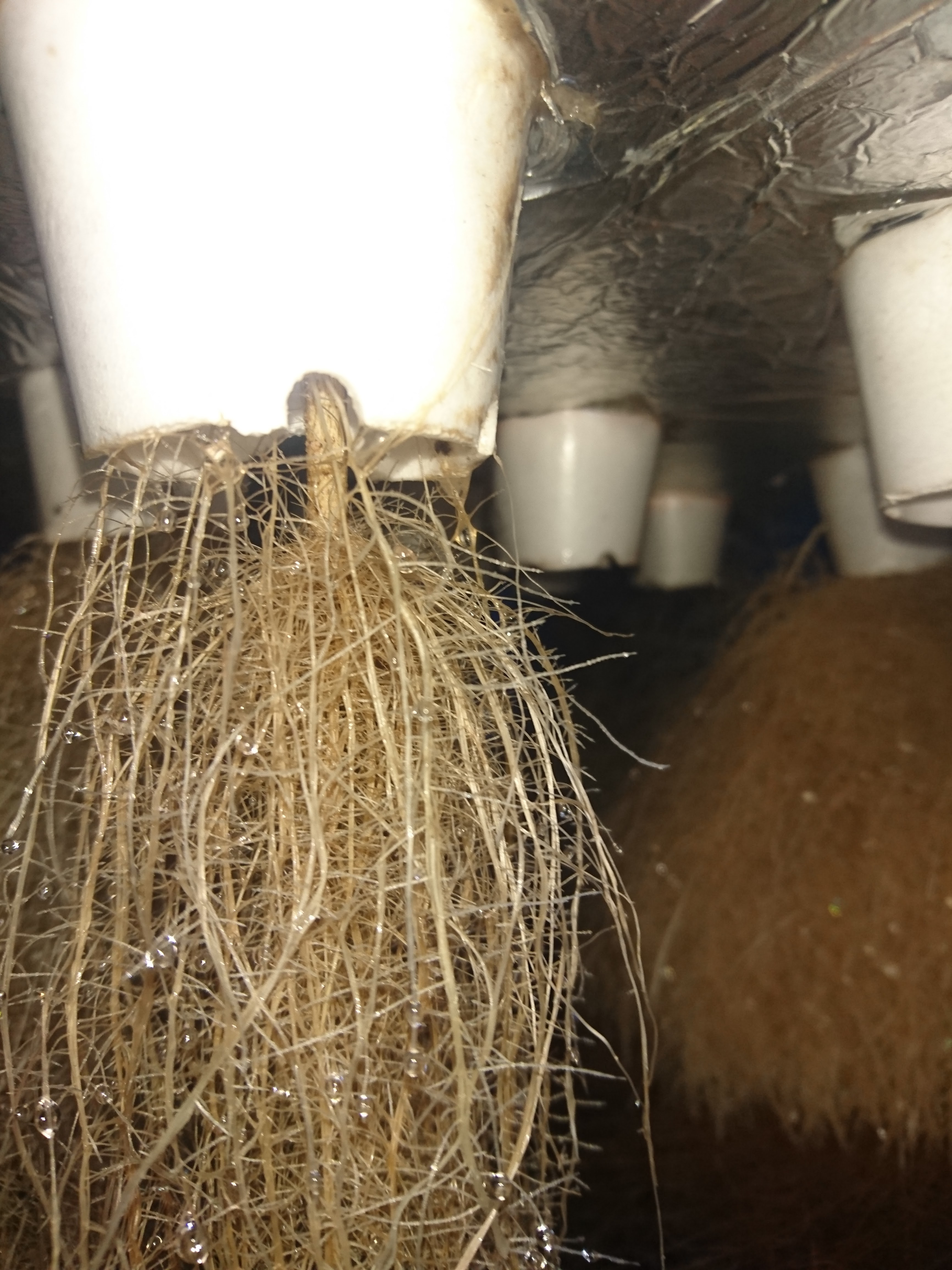 Roots inside a High Pressure Aeroponics System in Kathmandu, Nepal